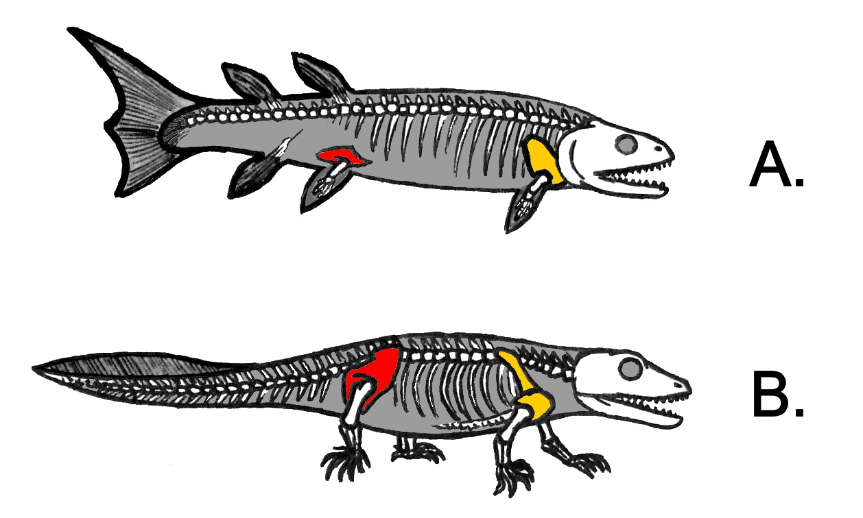 Illustration showing the deviation between the scapula / shoulder and the attachment for hindlimbs in Crossopterygiin fishes ( A. ) and the corresponding bones in early tetrapodas ( B. ). The difference between the the animals skeleton shows how much the "hips" in fishes should need to change if the Crossopterygiins should became a landliving animal.